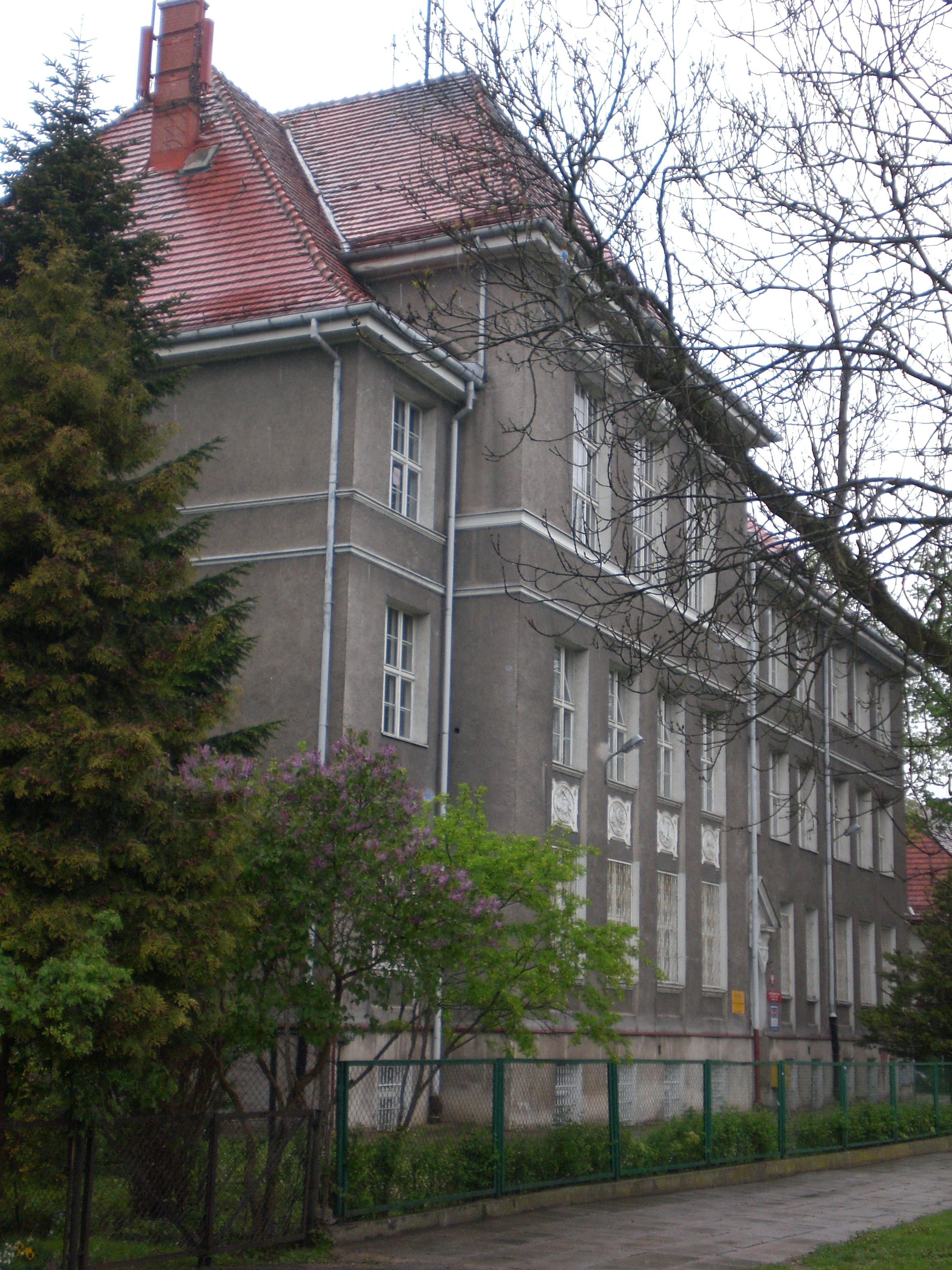 V LO in Gdańsk Oliwa.